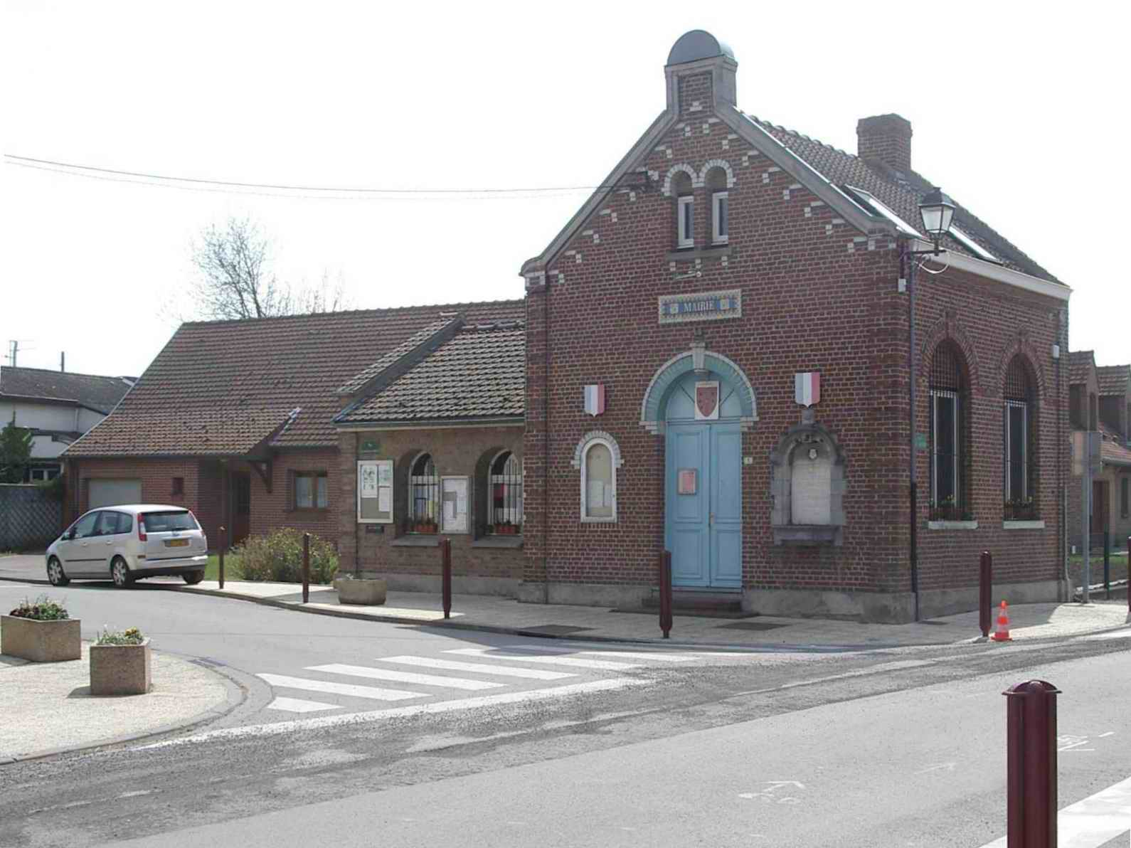 Town hall of Louvil